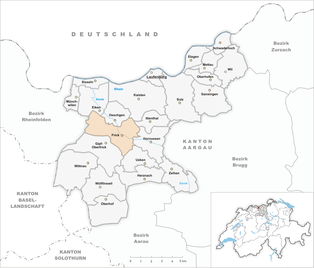 Municipality Frick